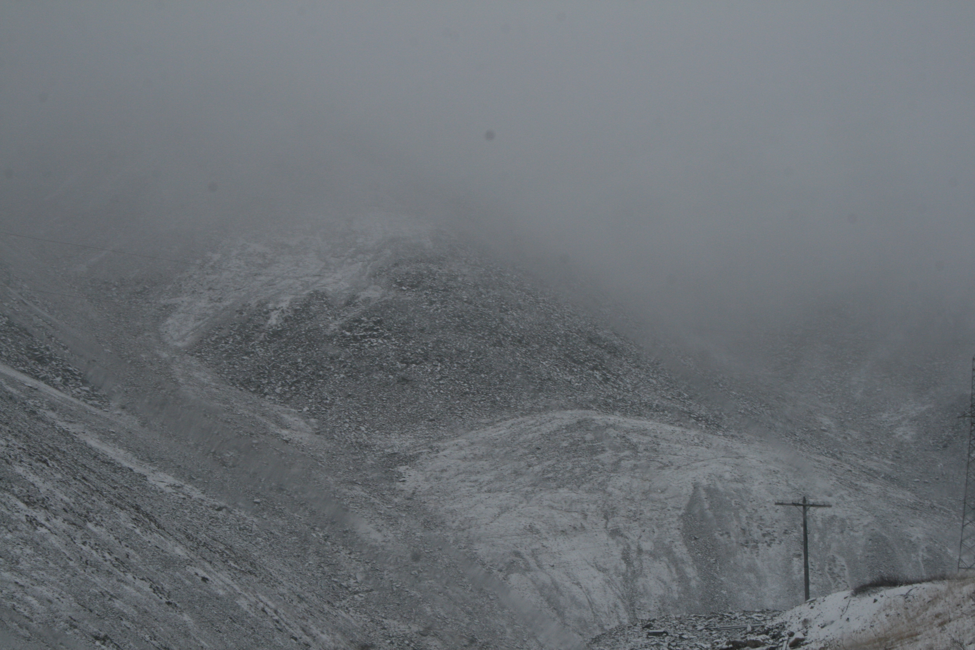 Kapranovsky Pass 62°13'37"N 155°22'40"E